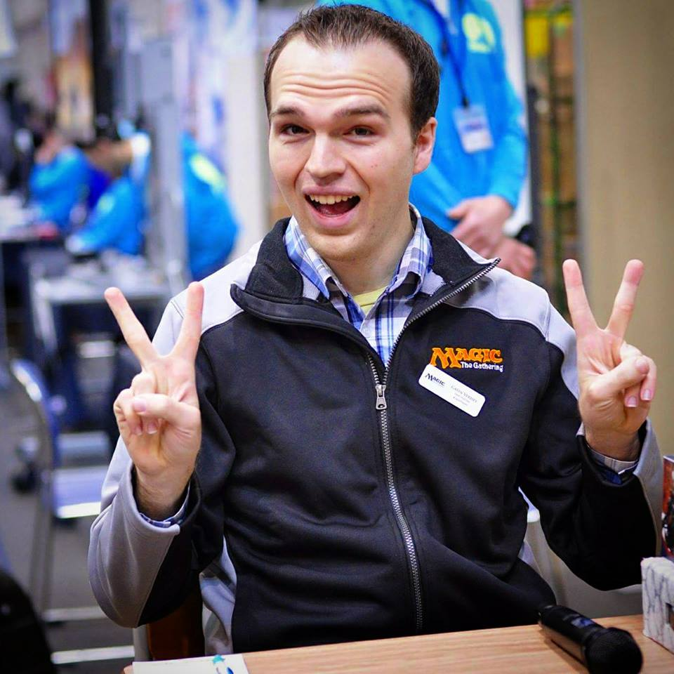 Photo taken of Gavin Verhey in 2017 at Grand Prix Shizuoka, Japan